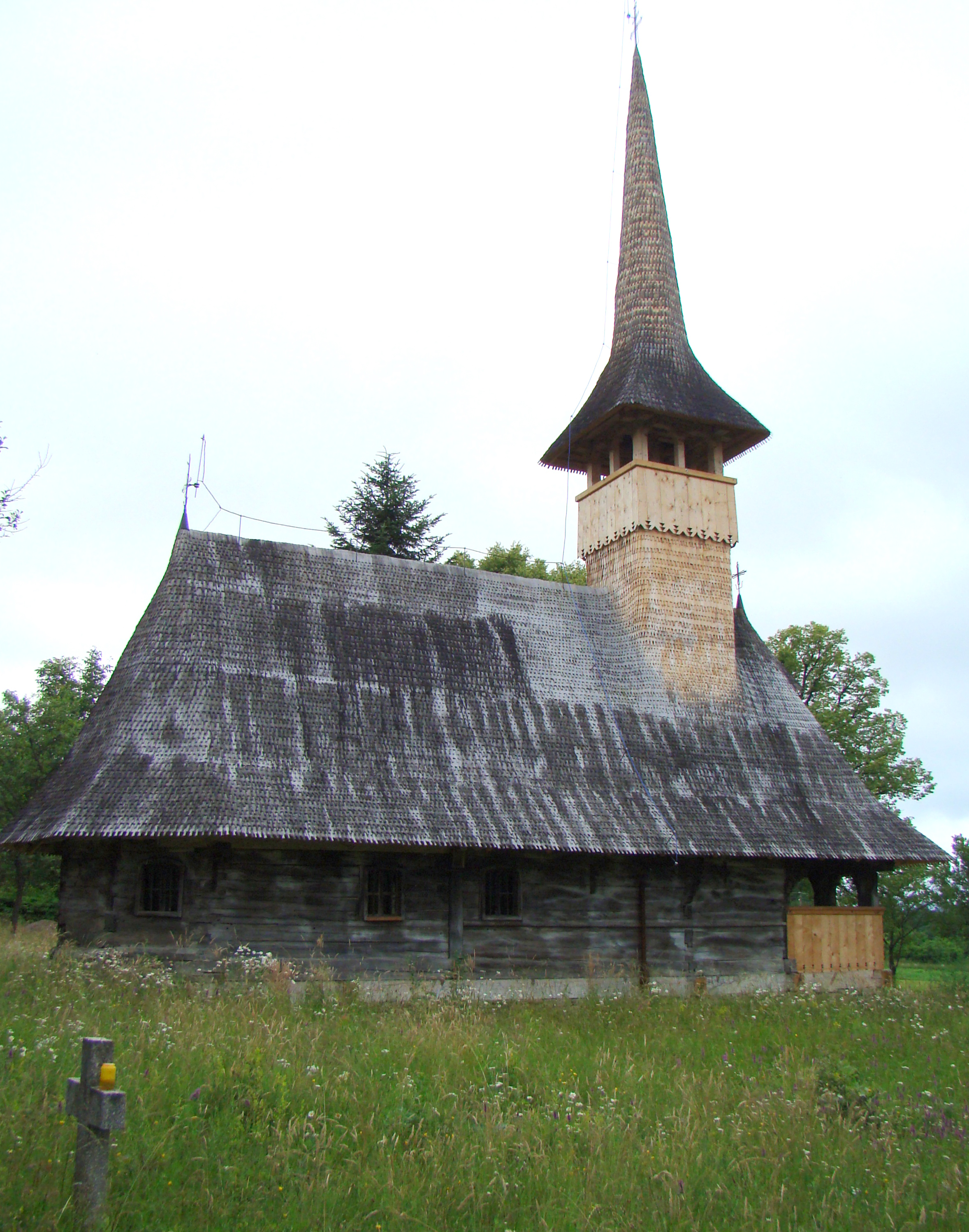 Wooden church in Cărpiniș, Maramureș county, Romania